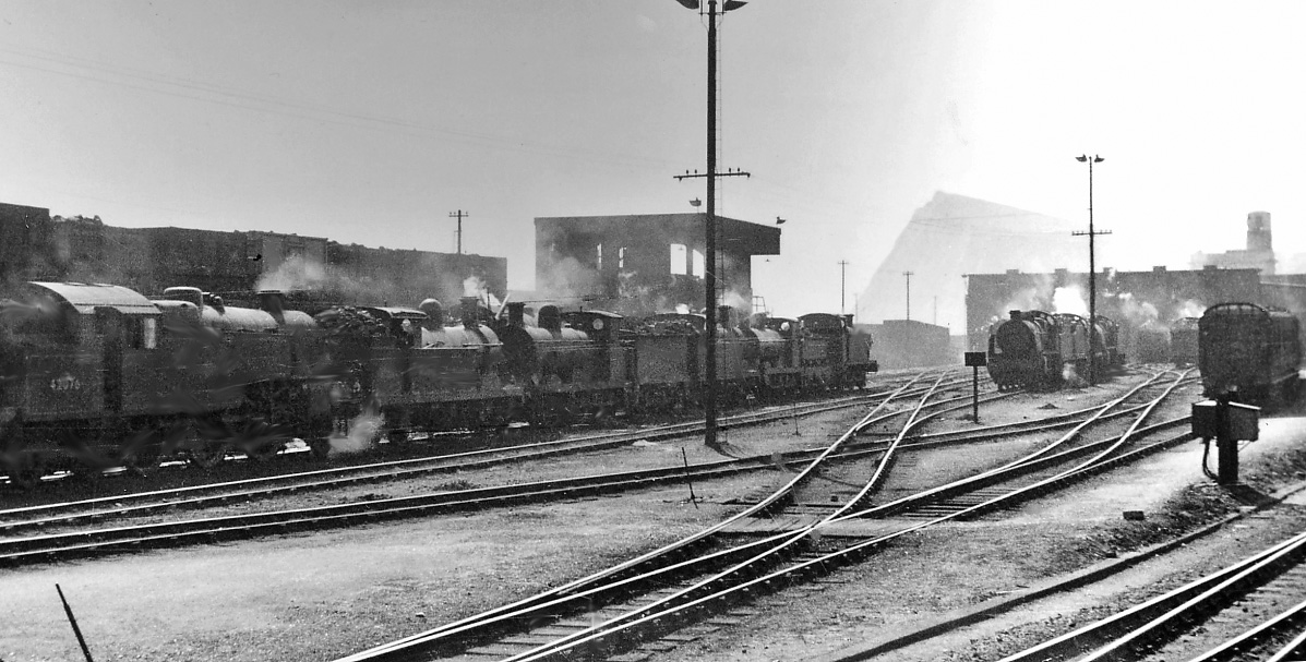 Dover Locomotive Depot. View SW, towards Folkestone to the right: ex-SE&C main line and branch from Dover Marine. This modern (1928) Depot (coded 74C by BR/SR) had an allocation in 1951 of 64 locomotives:- 6 4-6-2, 10 4-6-0, 13 4-4-0, 5 2-6-0, 10 0-6-0, 5 2-6-4T (LMS-type), 8 0-6-0T, 6 0-4-4T and 1 0-4-2T. Their variety is evident in the photgraph.